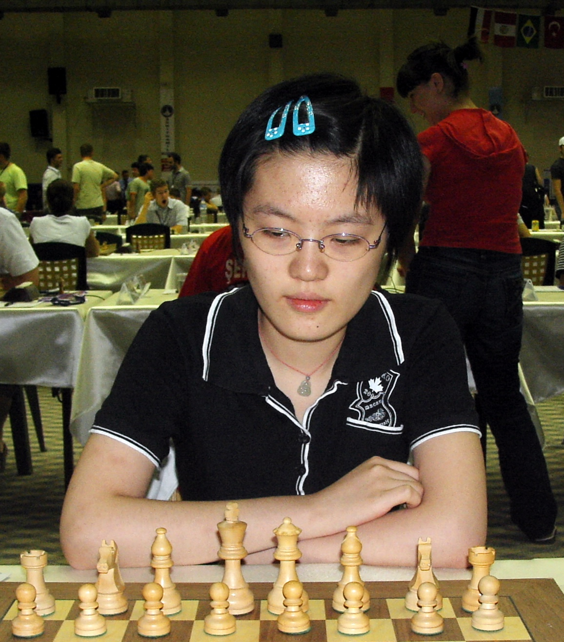 WGM Hou Yifan People's Republic of China, World Junior Chess Championship, Gaziantep 2008